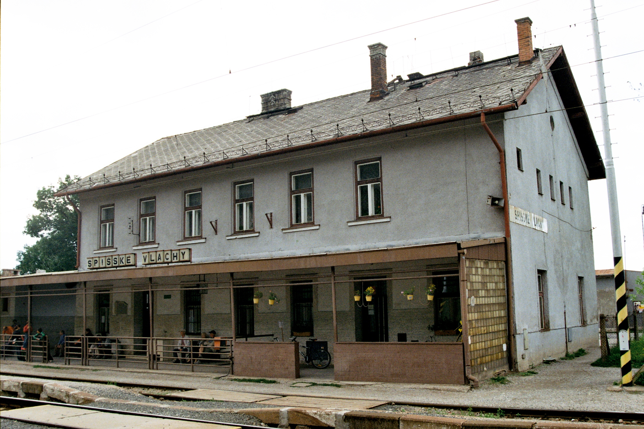 Spišské Vlachy (Wallendorf / Szepesolaszi) - city in Slovakia. Train station.